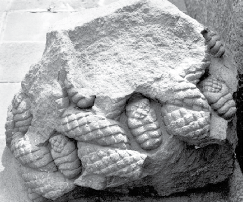 Fragment of a Coatlicue State at the National Museum of Anthropology 2